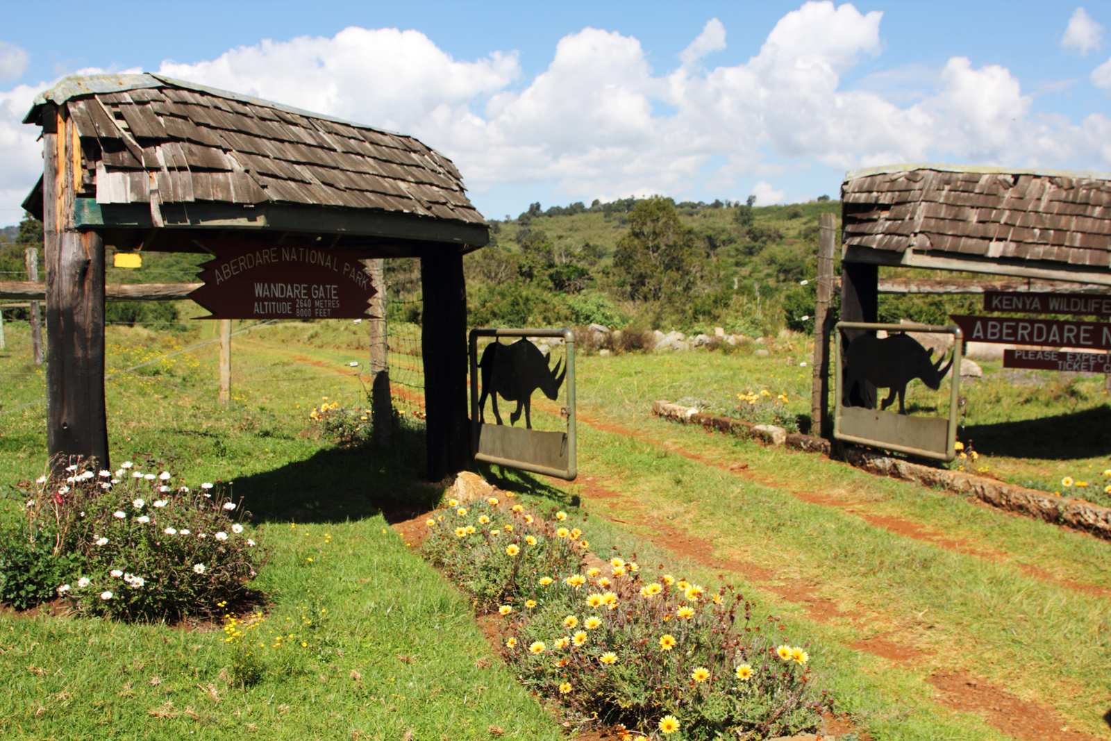 Aberdare National Park (Kenya), Wandare Gate